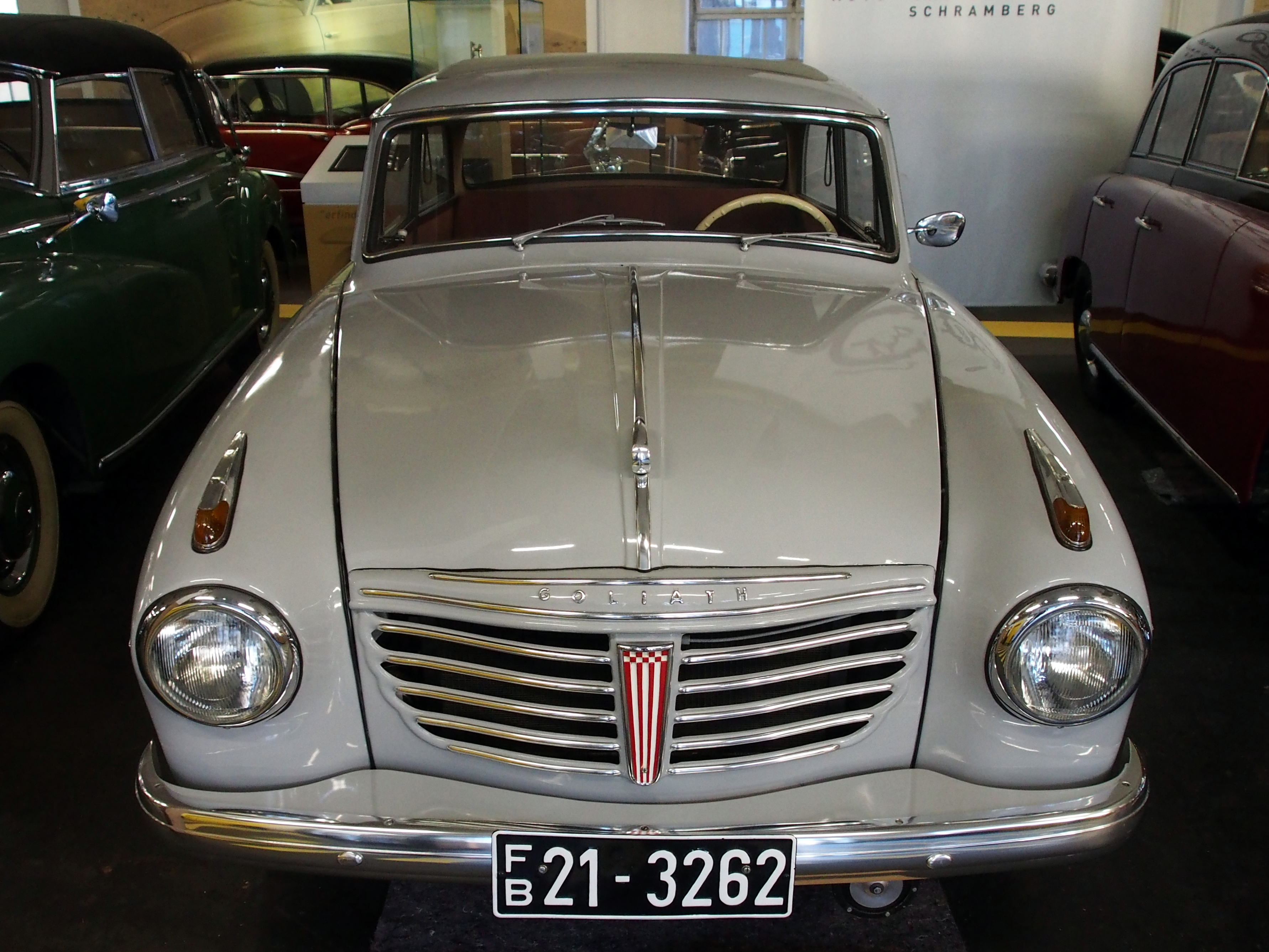 Photographed at the Auto & Uhrenwelt Schramberg, Germany.